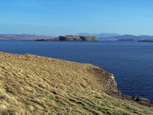 Looking south east from Harlosh Point The land on Harlosh Point is covered with well drained grass, now occasionally used for grazing sheep. There is evidence of former habitation in the area, probably dating back hundreds of years. This view is over Loch Bracadale to Tarner Island, with the Cuillin visible on the horizon.